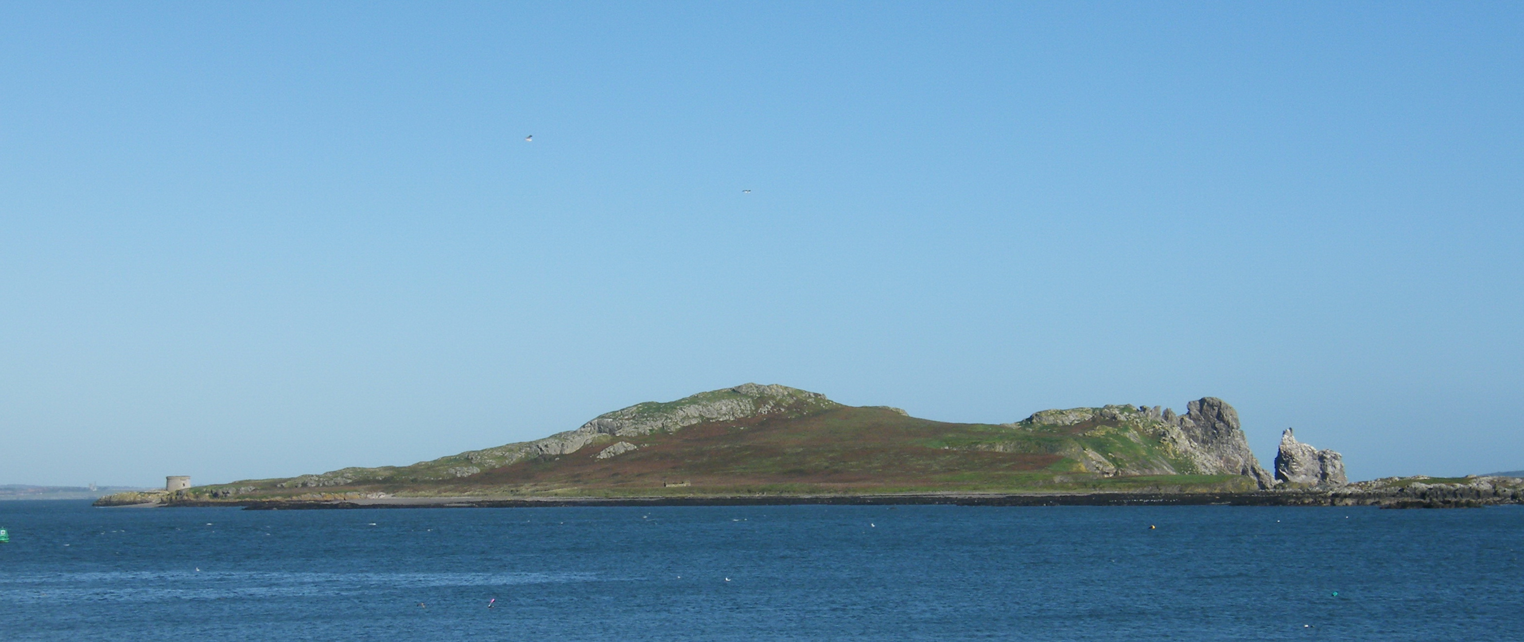 Ireland's_Eye_from_Howth_Harbour